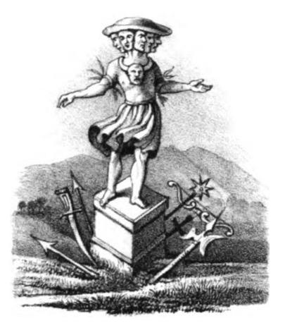 Porewith- slavic deity.